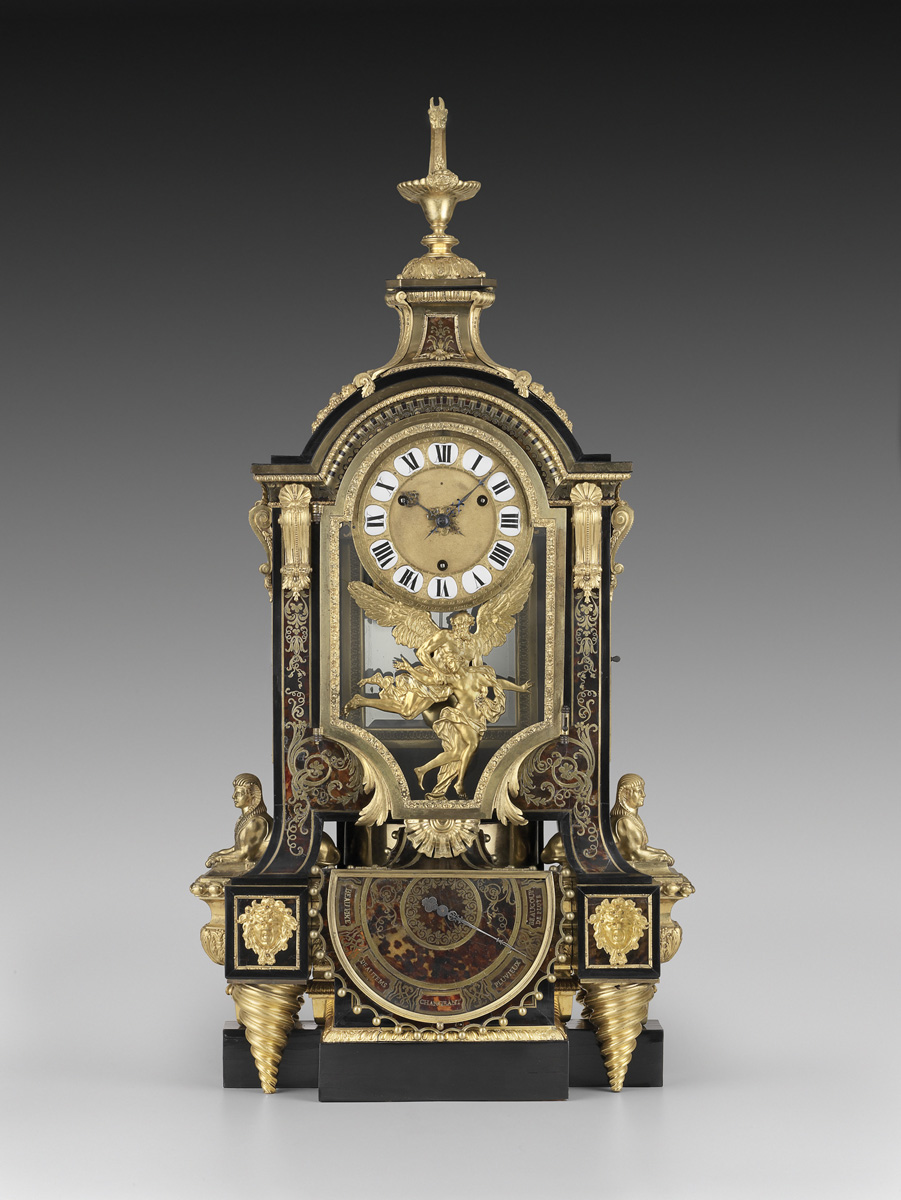 Jacques Thuret (1669-1738) Clockmaker (Attributed to) Andre-Charles Boulle (1642-1732) Casemaker (Attributed to) Ebony, Tortoiseshell, and Brass Barometer Mantel Clock, 1690 ebony, tortoiseshell, and brass on walnut and oak 42 1/4 in. x 23 1/8 in. x 10 1/4 in. (107.32 cm x 58.67 cm x 26.04 cm) Bequest of Winthrop Kellogg Edey, 1999. Accession number: 1999.5.148